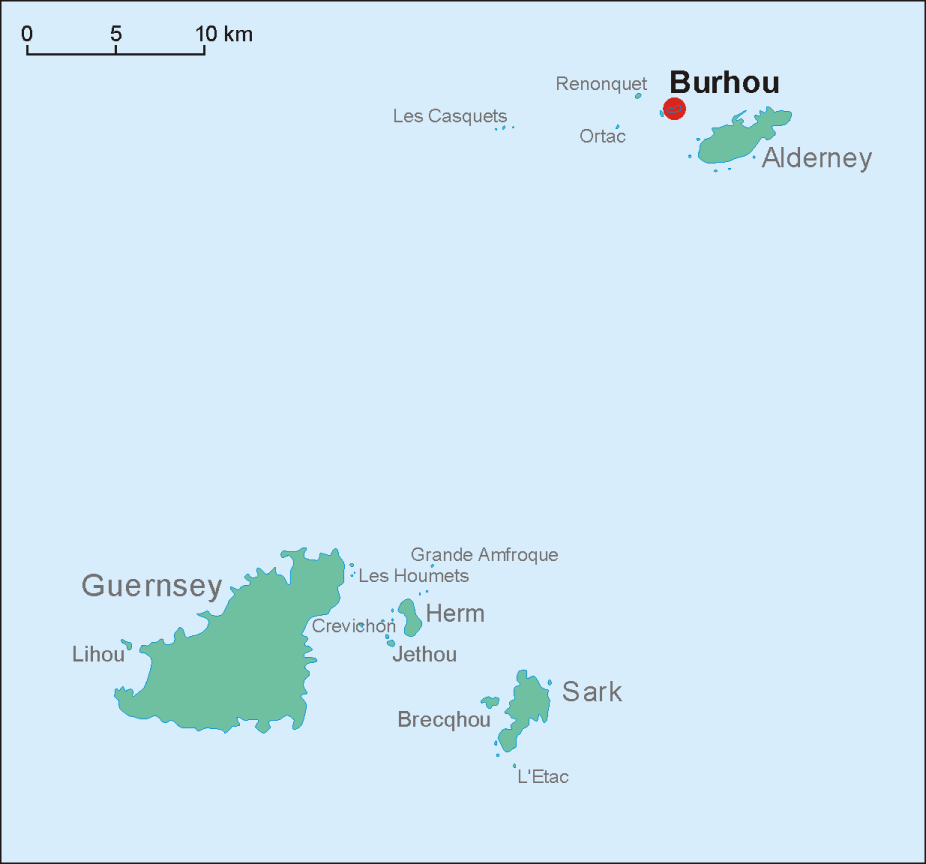 Location map of Burhou